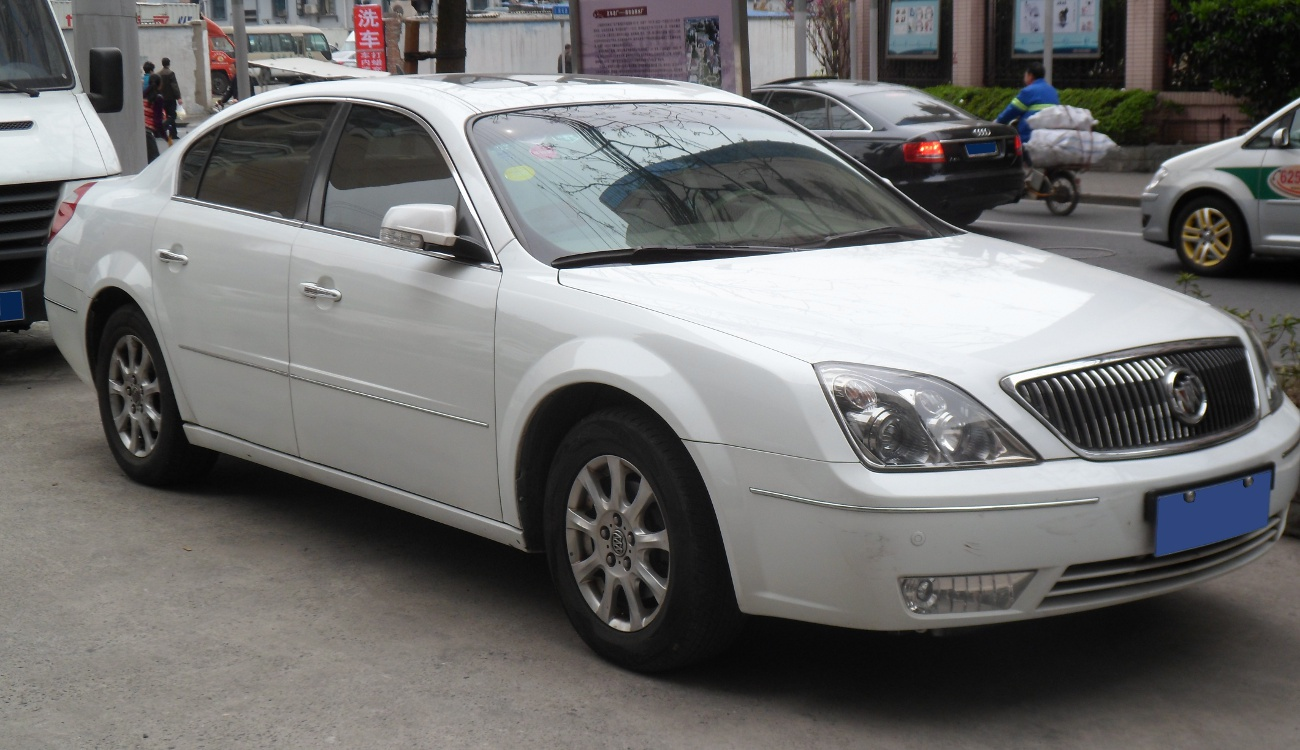 Buick LaCrosse CN photographed in Shanghai, China.